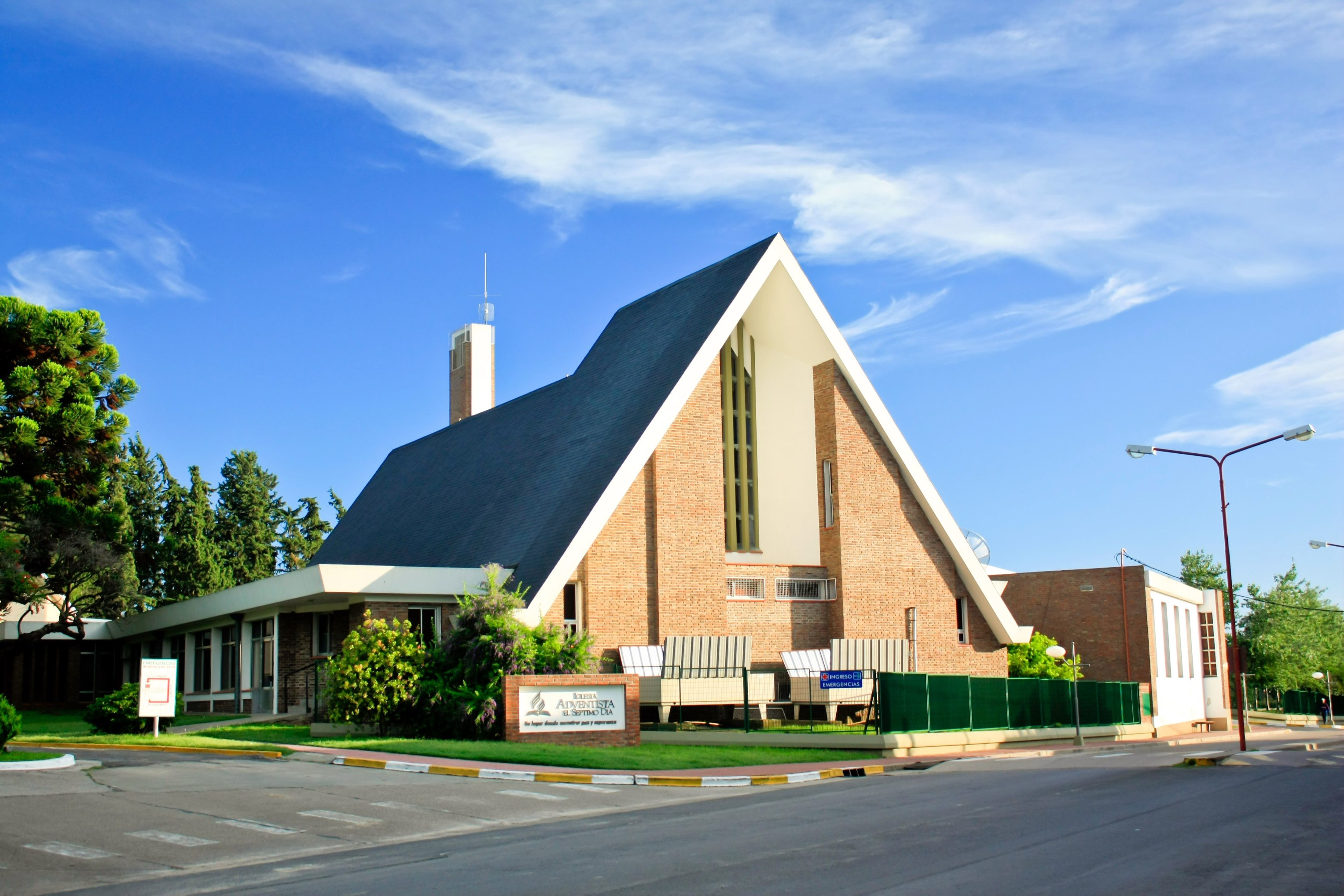 A photo of the Seventh-day Adventist church in front of the River Plate Hospital (Sanatorio Adventista del Plata), province of Entre Ríos, Argentina.